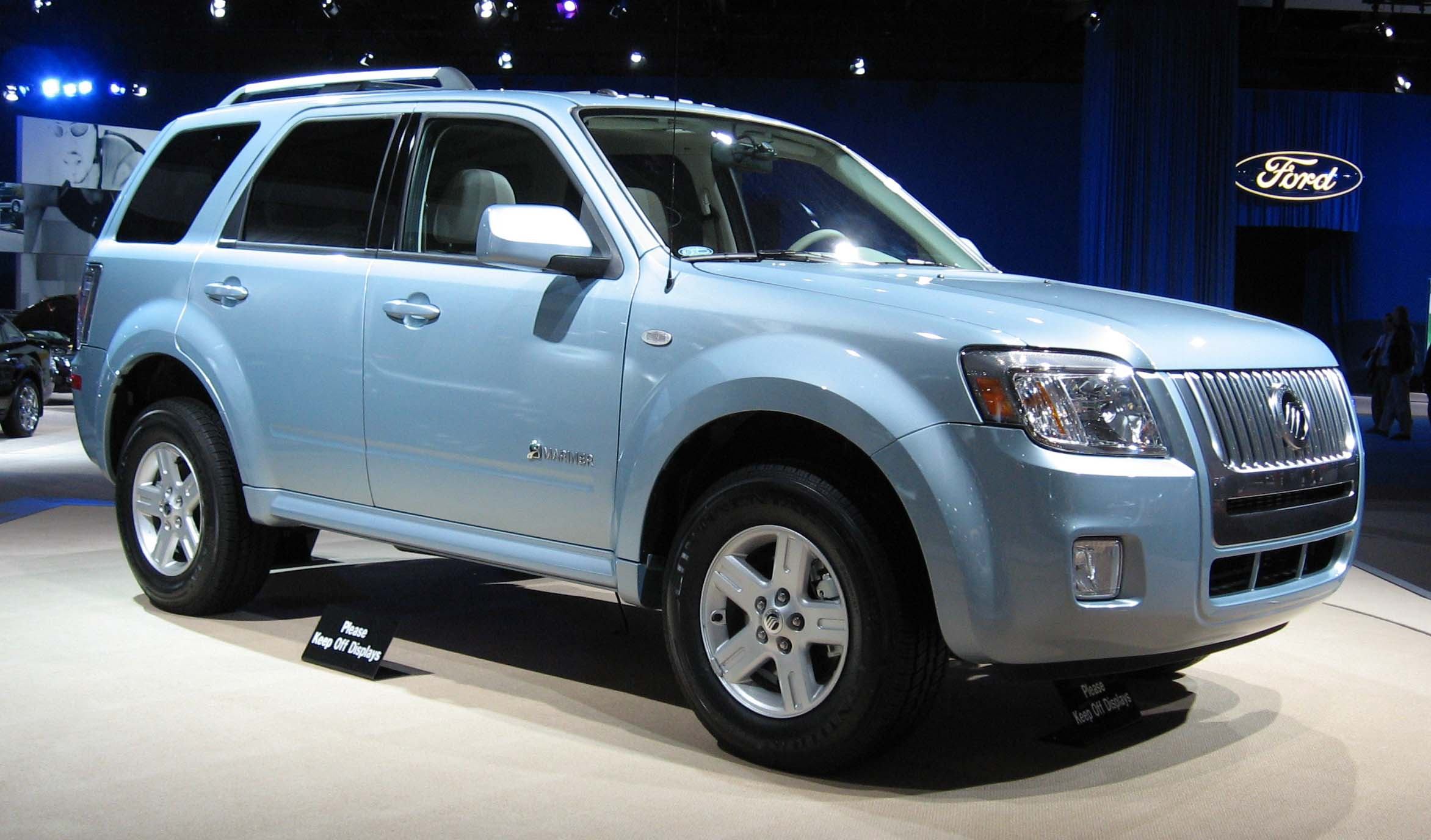 2008 Mercury Mariner Hybrid photographed at the Washington Auto Show.